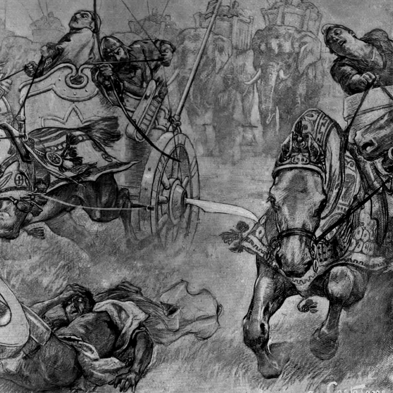 engraving by André Castaigne of scythed chariots